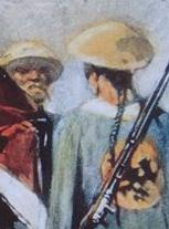 Cropped version of :Image:BoxersDrawingByKoekkoek1900.jpg for use in queue article